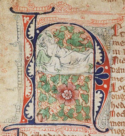 Hein van Aken dreaming of a rose Contents: Heinrich von Aken, Die Rose. Roman van Cassamus. Die Frenesie Place of origin, date: Brabant; c. 1300-1350 Material: Vellum, ff. 77, 243x162 (200x120) mm, 53 lines, littera textualis, Binding: 18th-century brown leather; gilt Decoration: 1 historiated penwork initial (45x38 mm); penwork initials (61r, 77v) Provenance: Probably owned by the Cistercians of the Abby of St. Bernard opt Scheld near Antwerp (1762-1797). J.F. Willemsen (1825); sold by him to the Koninklijke Nederlandse Akademie van Wetenschappen (Royal Dutch Academy of Sciences), Amsterdam; since 1937 on permanentloan Annotation: Originally bound together with Jacob van Maerlant, Rijmbijbel and Der Naturen Bloeme (Brussels, KB, 19545-19546) and separated by J.F. Willemsen